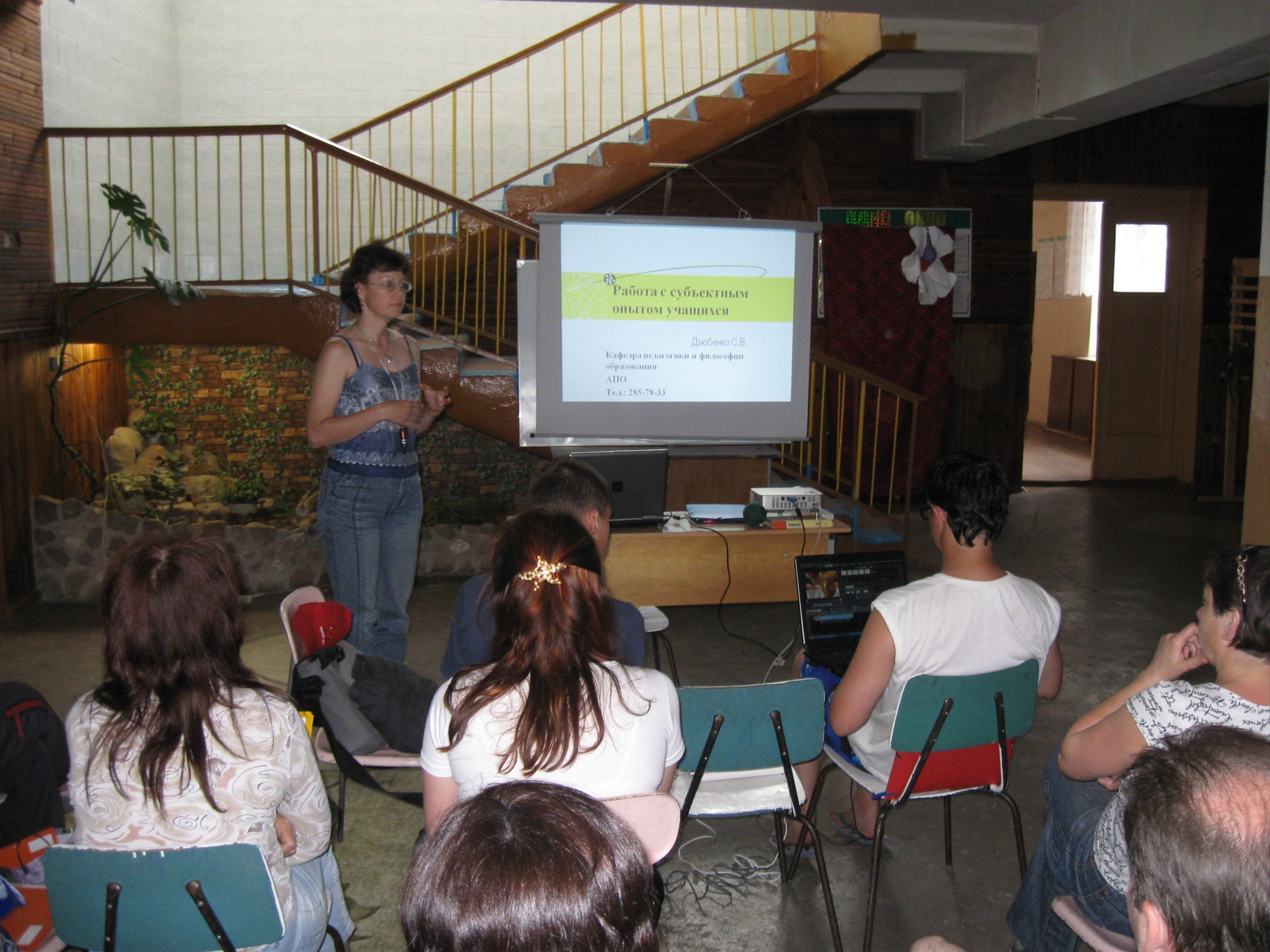 Alhovka, methodic camping